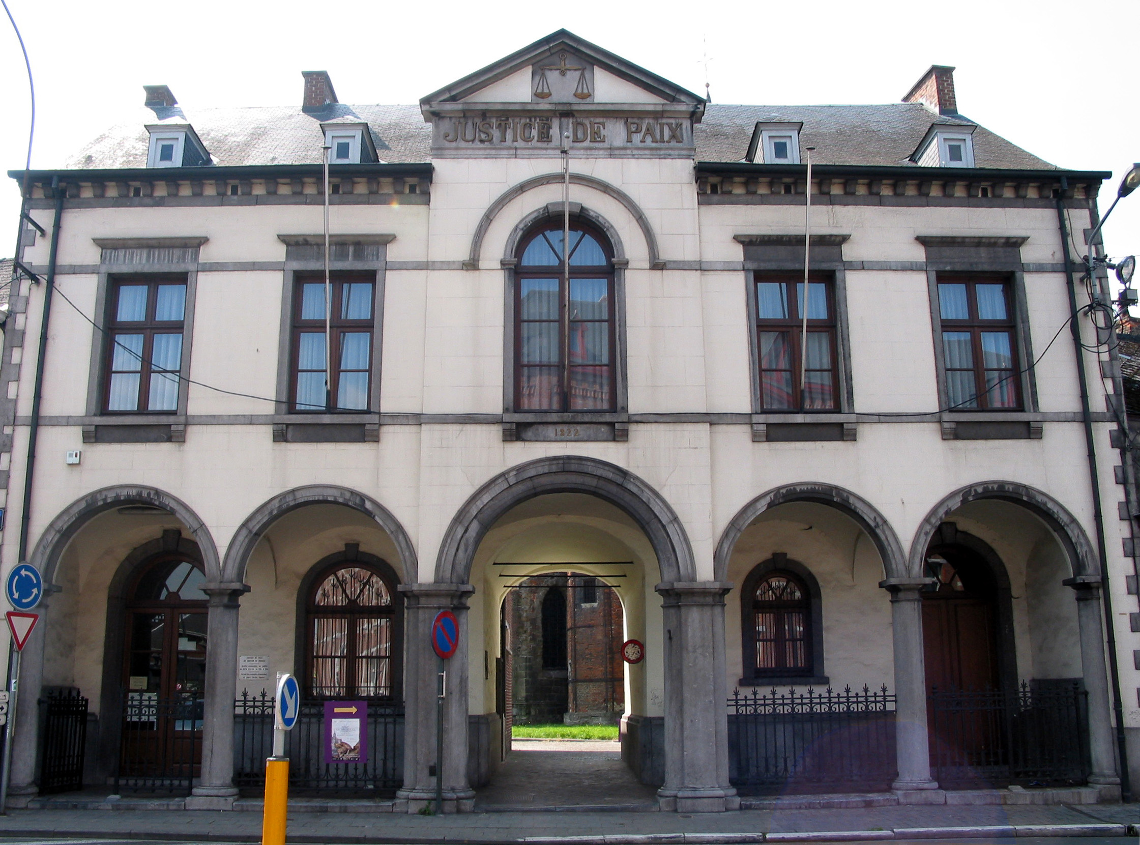 Boussu (Belgium), the Justice of the Peace (1822).